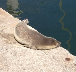 Spotted today at Coaling Island, Gibraltar. Sunbathing on a slipway. Perhaps a first for Gibraltar.